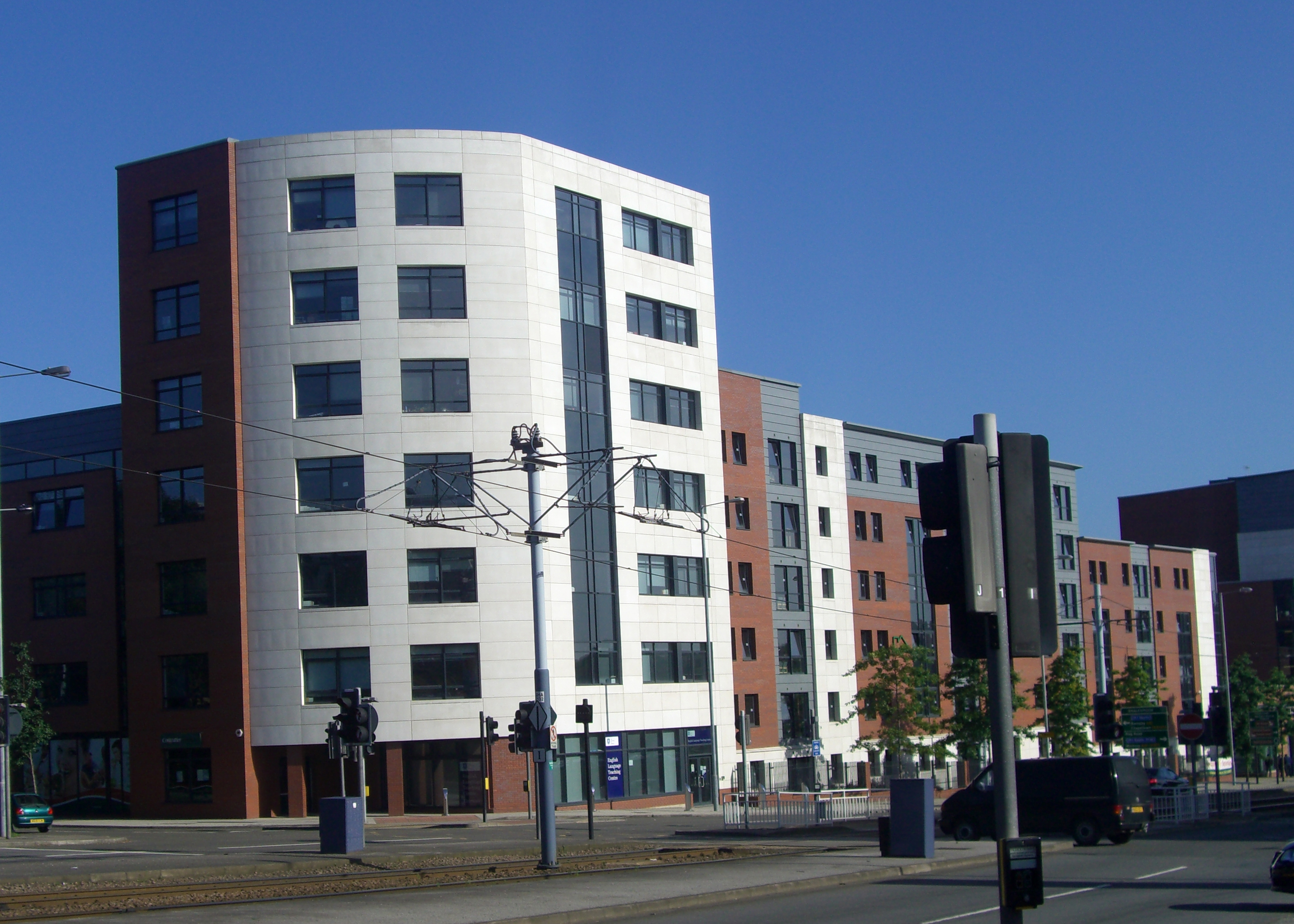 The Opal 3 Developement in Netherthorpe, Sheffield, England